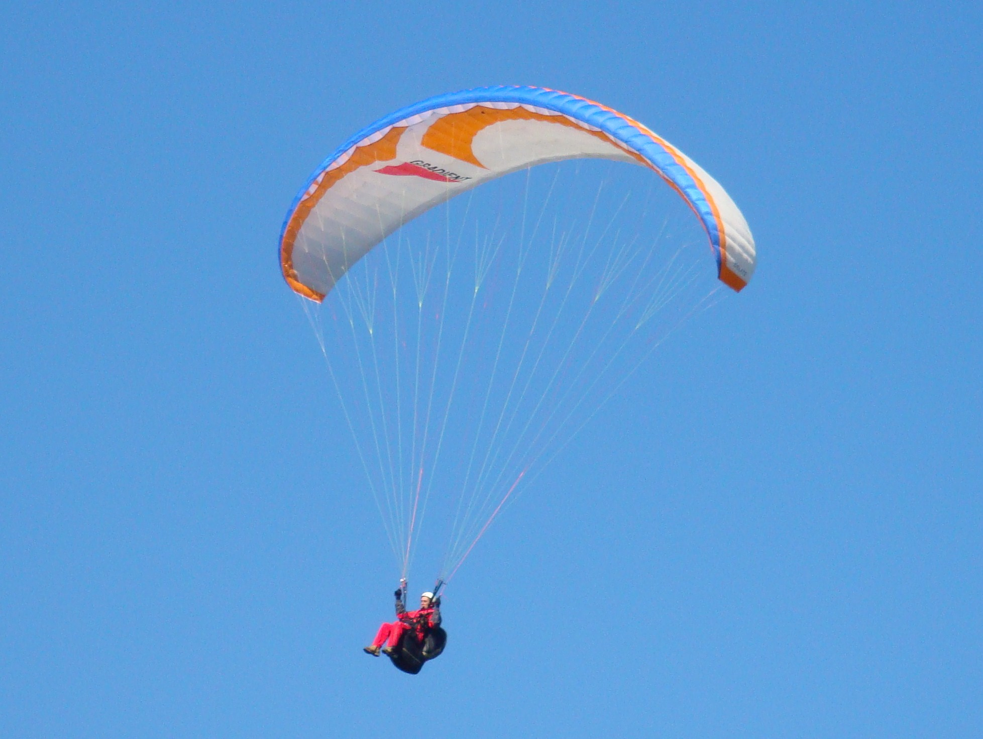 Paraglider Gradient Delite